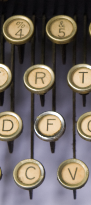 Detail of Continental Standard typewriter keyboard, showing a column of keys and the levers.